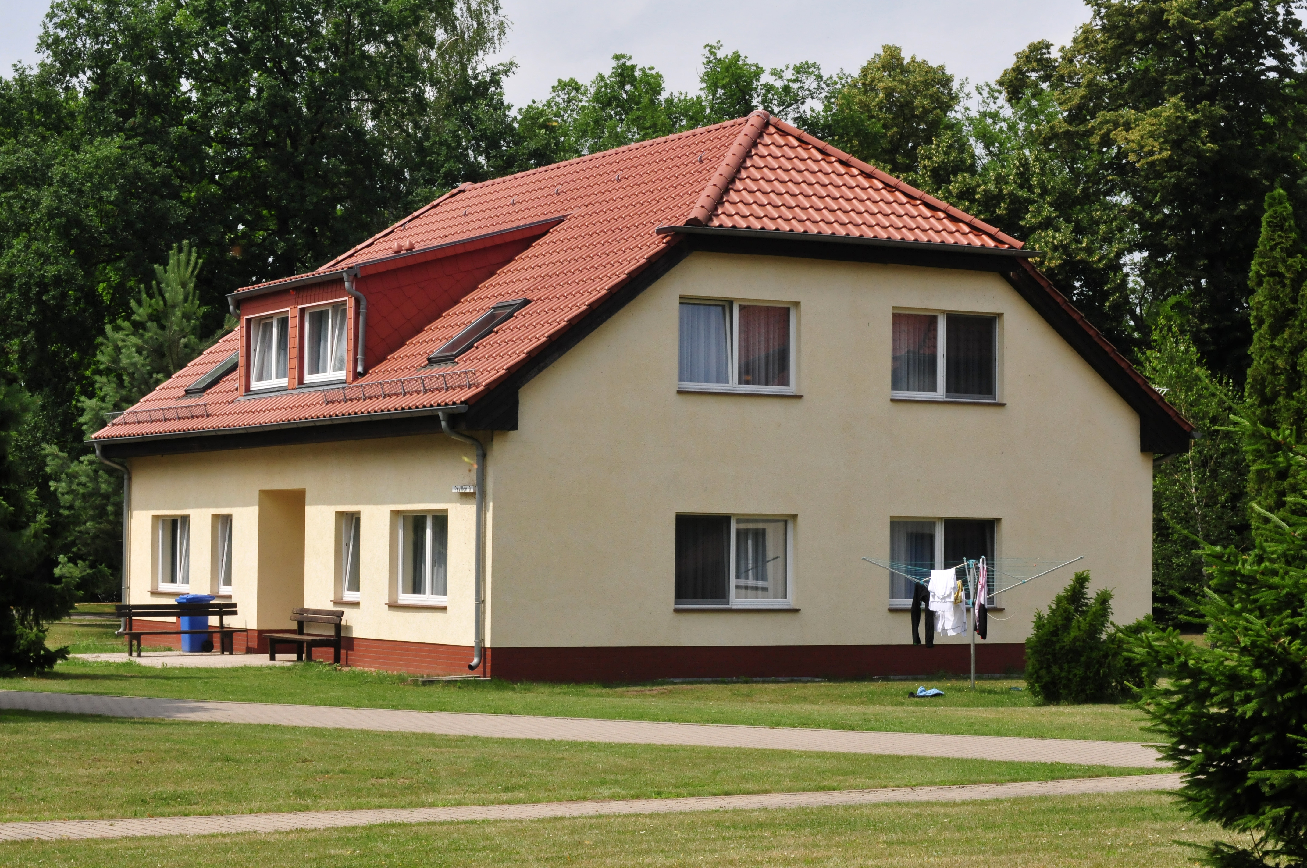 german olympic center Kienbaum, accommodation